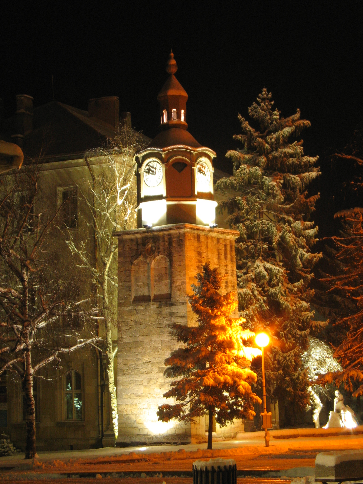 The clock tower in the town of Byala, Rousse District, Bulgaria